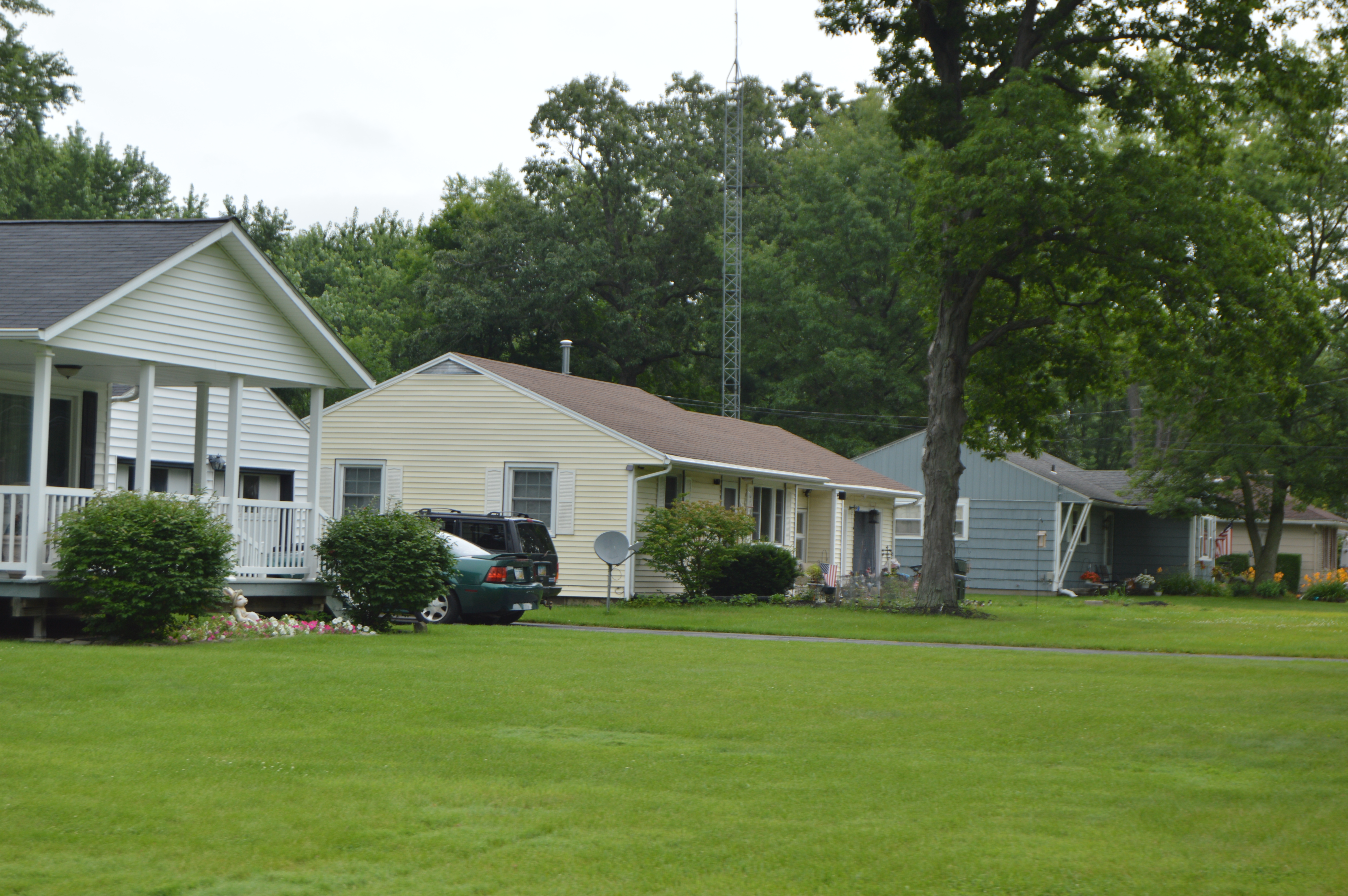 Houses on the northern side of Frail Road, immediately east of the Janice Lane intersection, in Fort Shawnee, Ohio, United States.